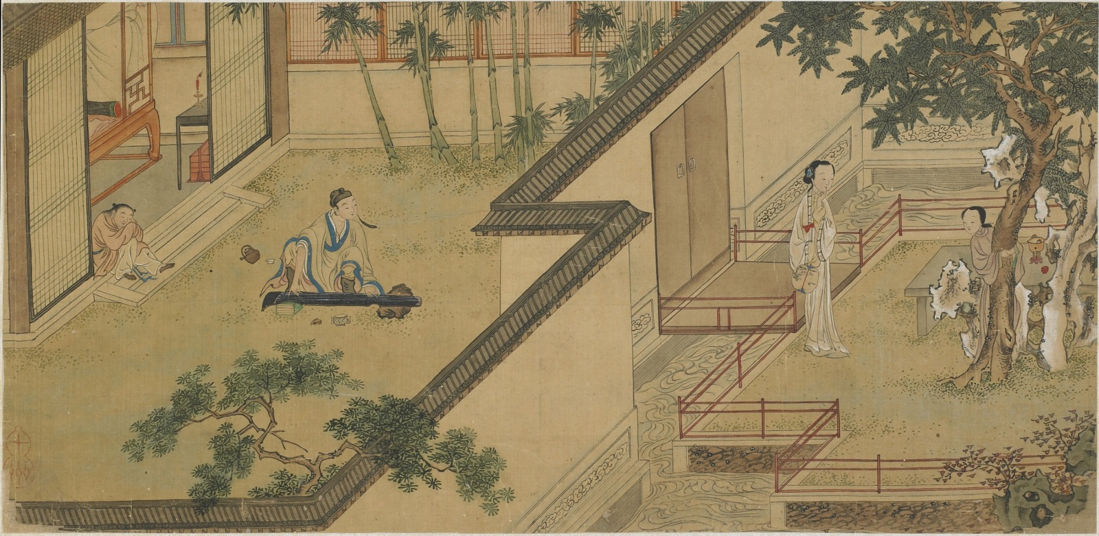 Scenes from The Story of the Western Wing, traditionally attributed to Qiu Ying